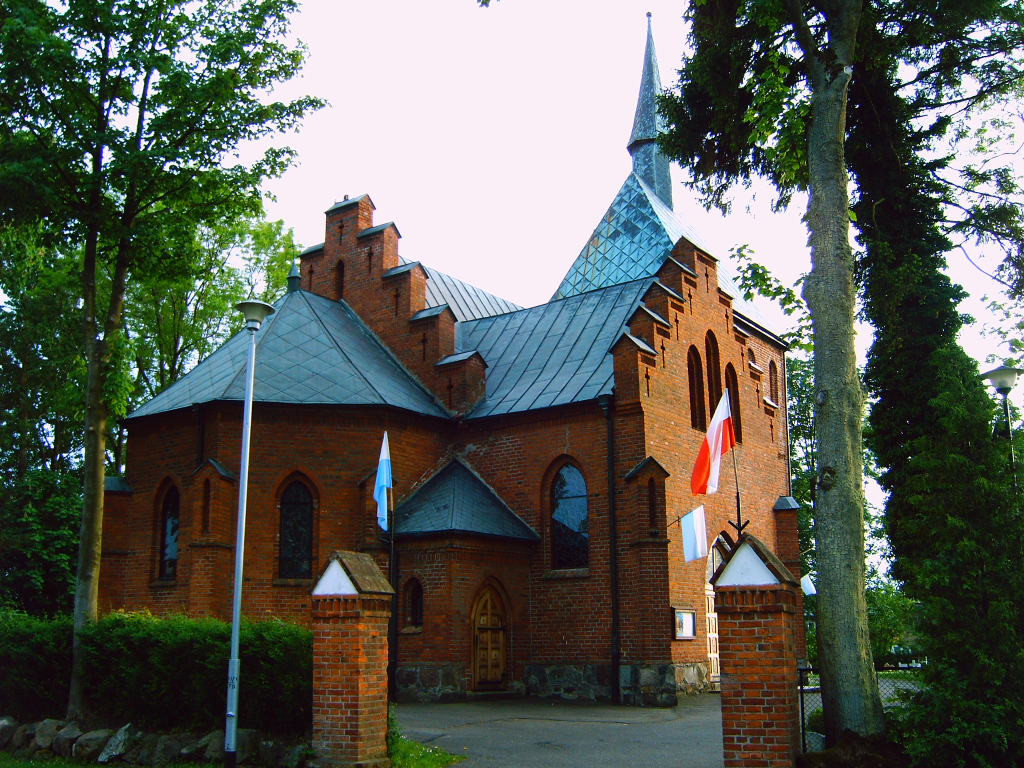 Poland, Mielno, Church of Transfiguration of Jesus